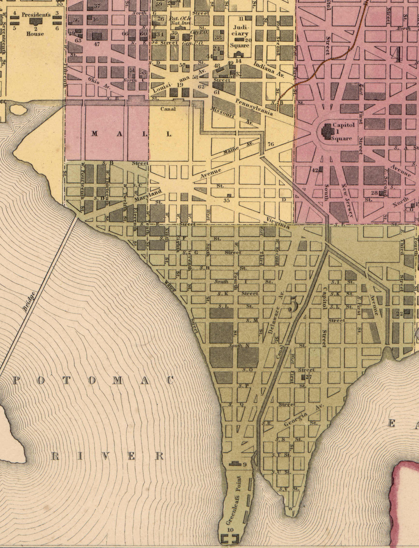 Original map from the Library of Congress